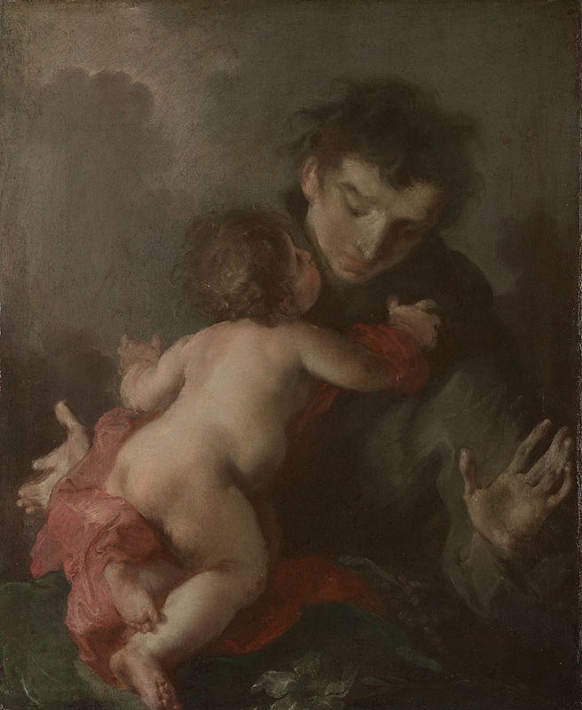 Giuseppe Bazzani, Sant'Antonio da Padova col Bambino, 1740-50 (London, National Gallery).